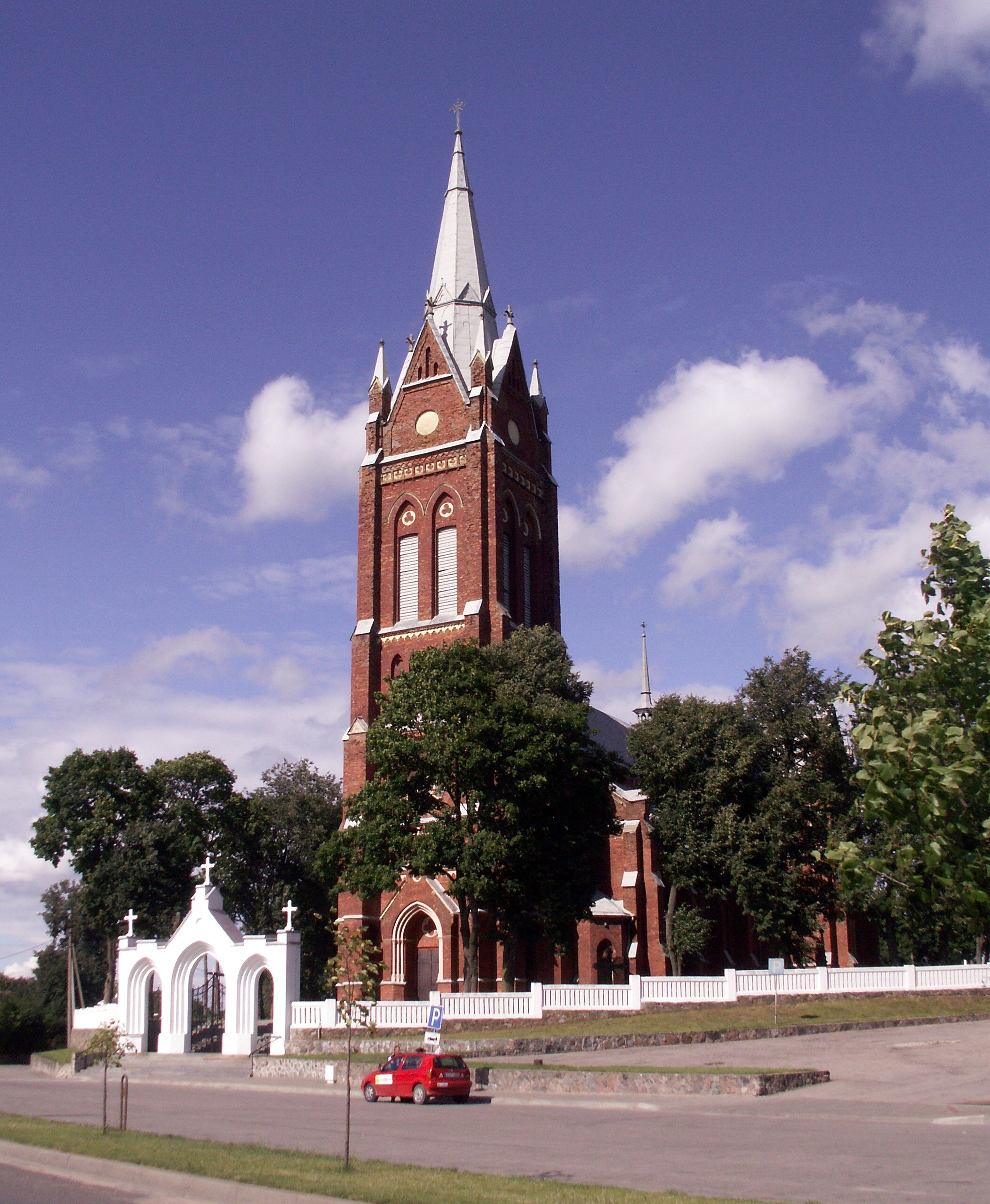 Kelme St. Virgin Mary of the Assumption Church